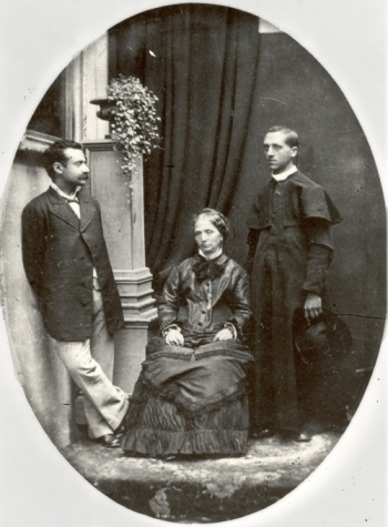 Father Edgardo Mortara (right) with his mother (centre) and another man, perhaps a brother of Edgardo. Marianna Mortara (née Padovani) died in 1890 so this photograph cannot have been taken any later than that.